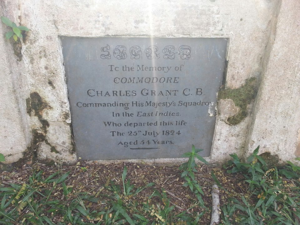 Gravestone of Charles Grant (Royal Navy) in Penang, for Wikipedia entry: Charles_Grant_(Royal_Navy_officer)